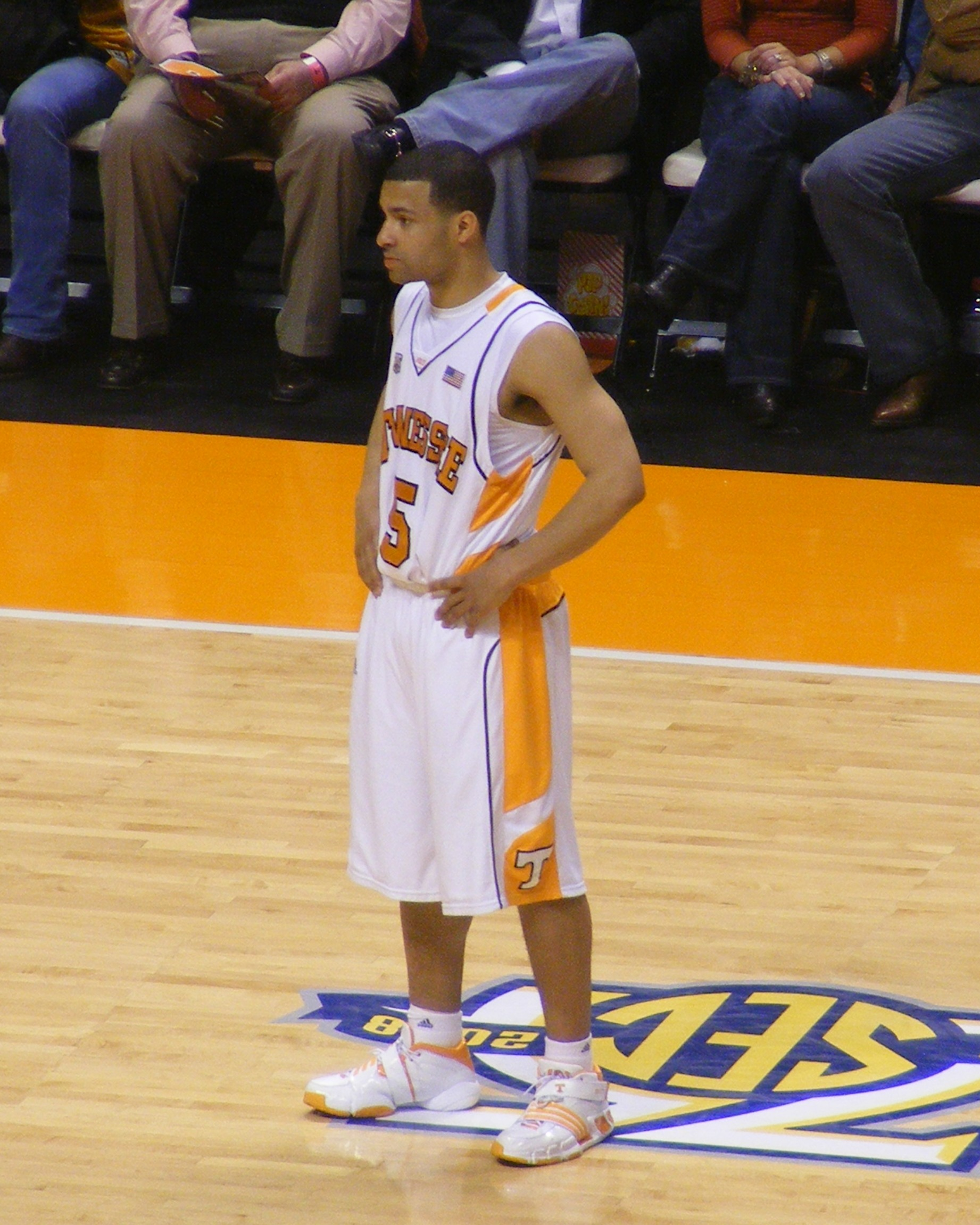 C-Lo